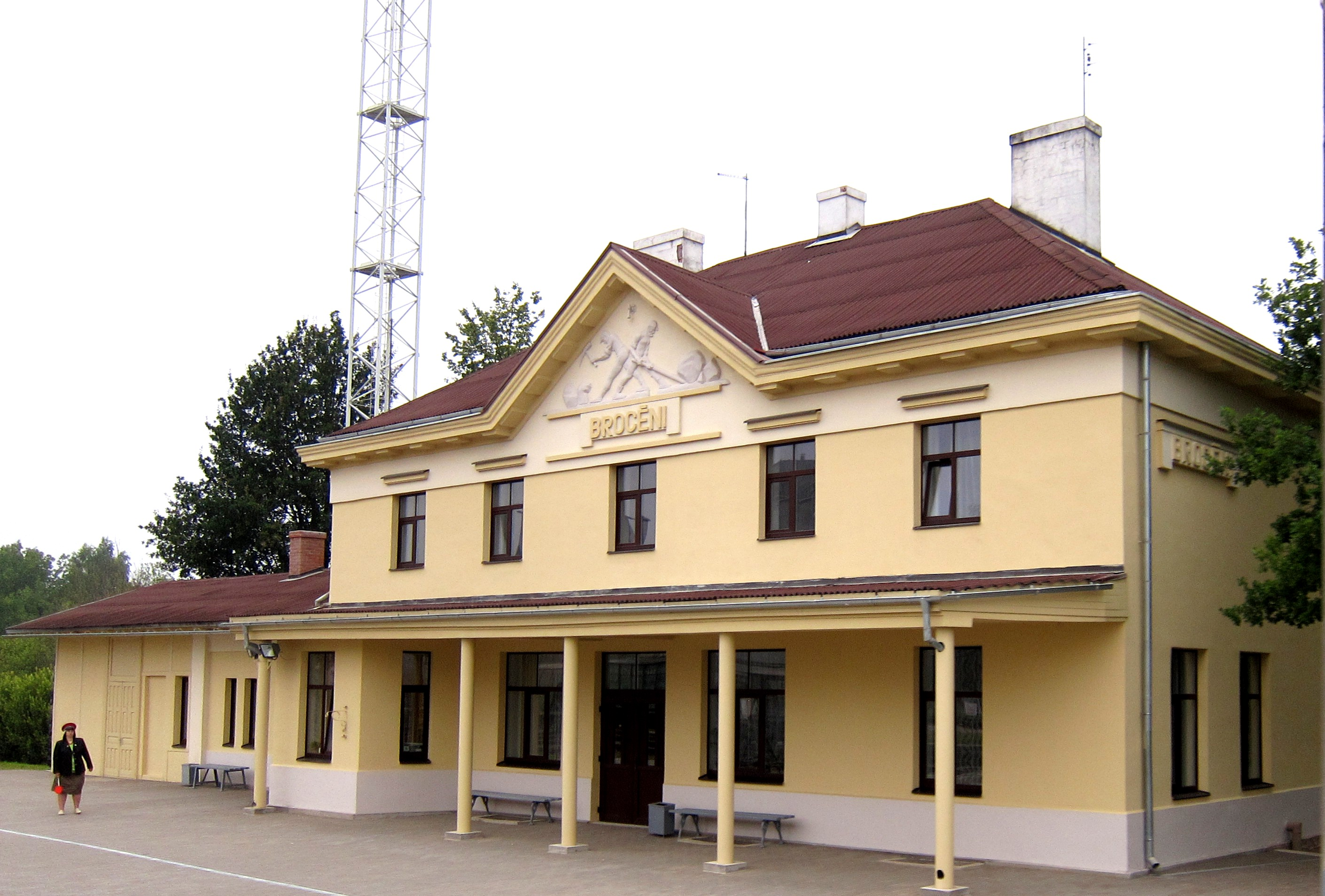 Broceni railway station